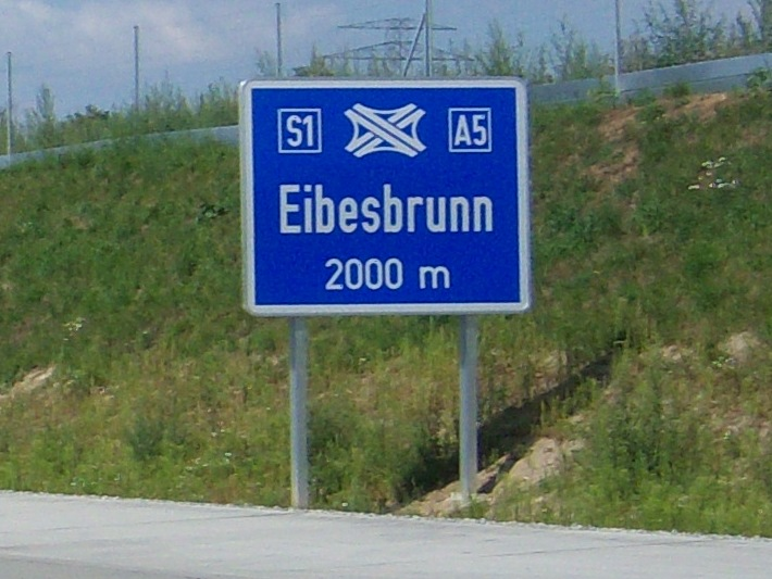 Detail of File:S1 Seyring 2.JPG